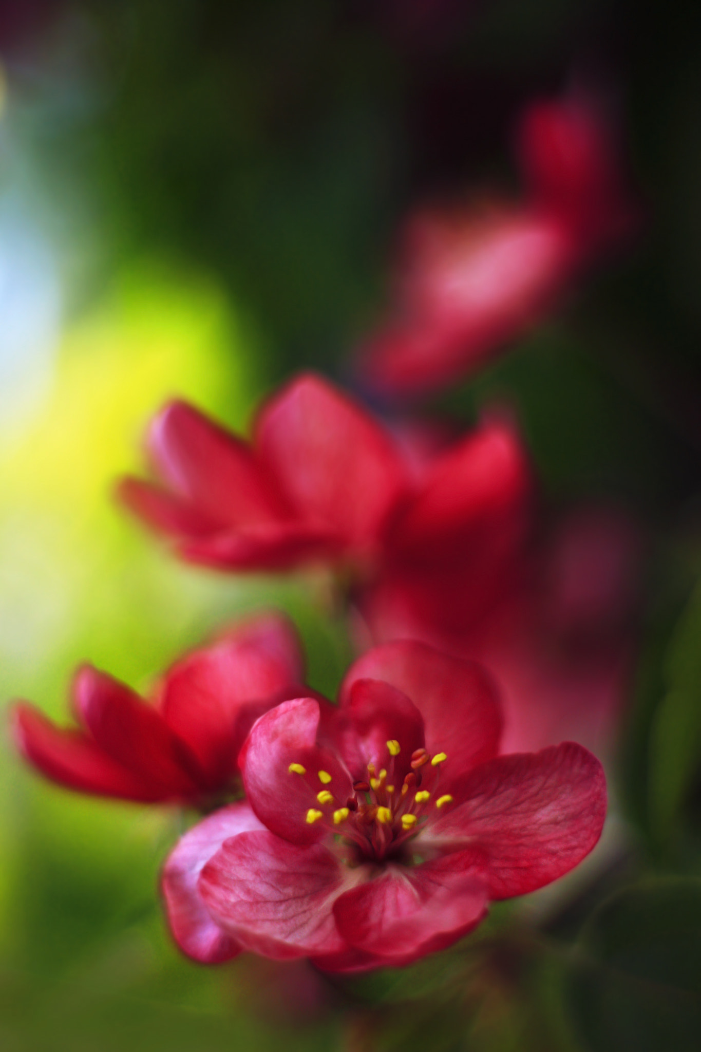 500px provided description: ???????? [#park ,#trees ,#flowers ,#red ,#beauty ,#spring ,#moscow ,#nature ,#macro ,#sun ,#light ,#bokeh ,#pretty ,#colors ,#green ,#canon ,#magic ,#apple ,#colorful ,#blossom ,#sweet ,#focus ,#natural light ,#best ,#appletree ,#Flower ,#Garden ,#Amazing ,#Flora ,#KevinRoot]